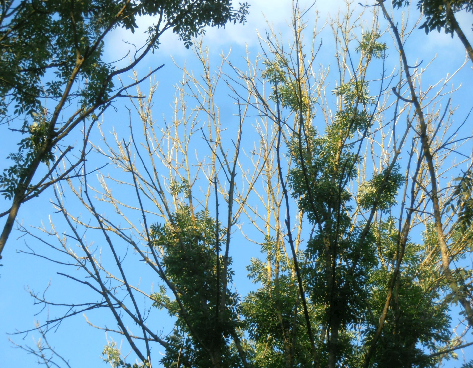 Ash dieback disease (Hymenoscyphus fraxineus) in Kocherwald (Bad Friedrichshall, Germany).